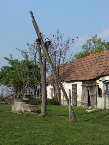 Shadoof in Felsőerek (part of Szakmár)